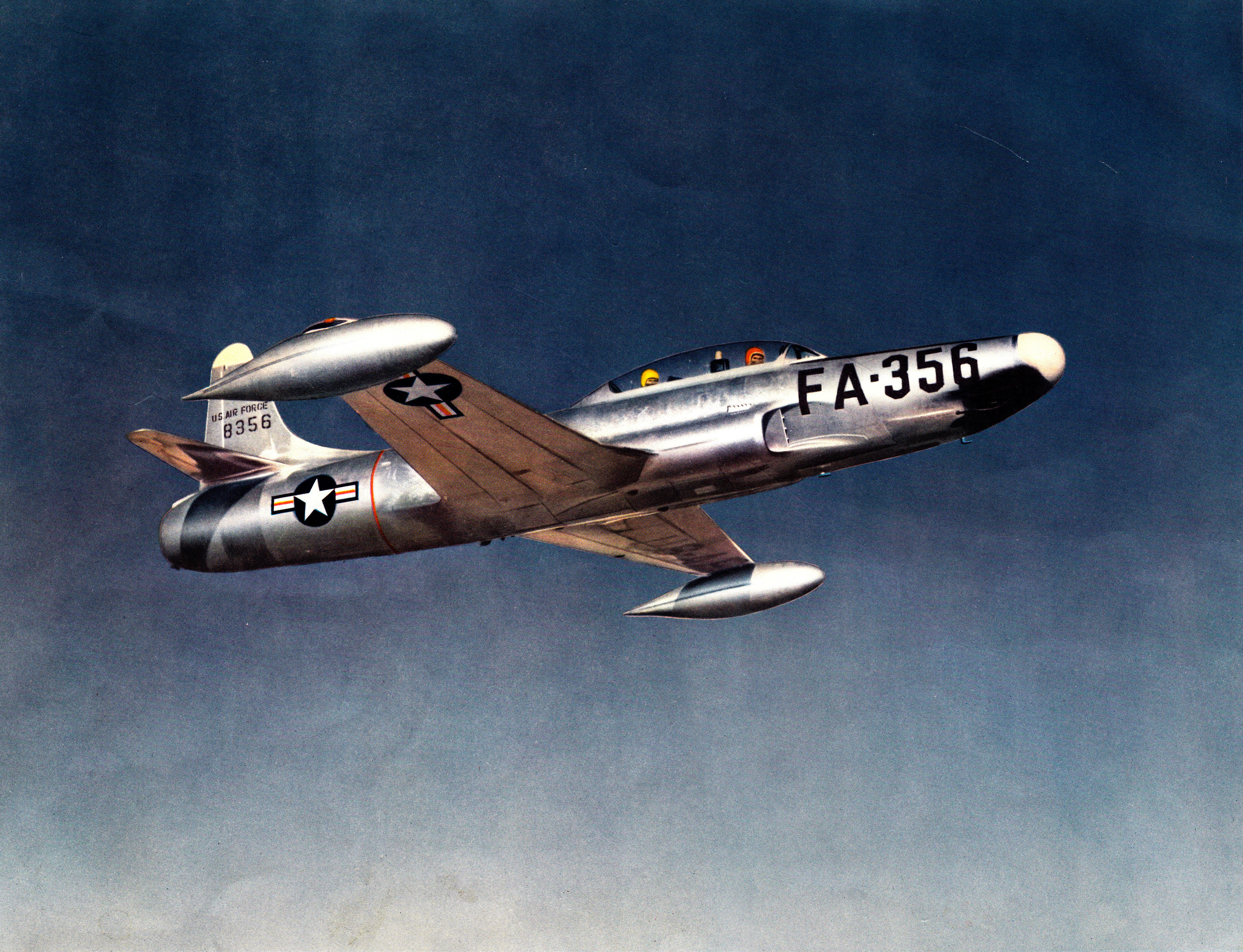 The Lockheed YF-94A All Weather Interceptor prototype 48-0356 FA-356 April 1949